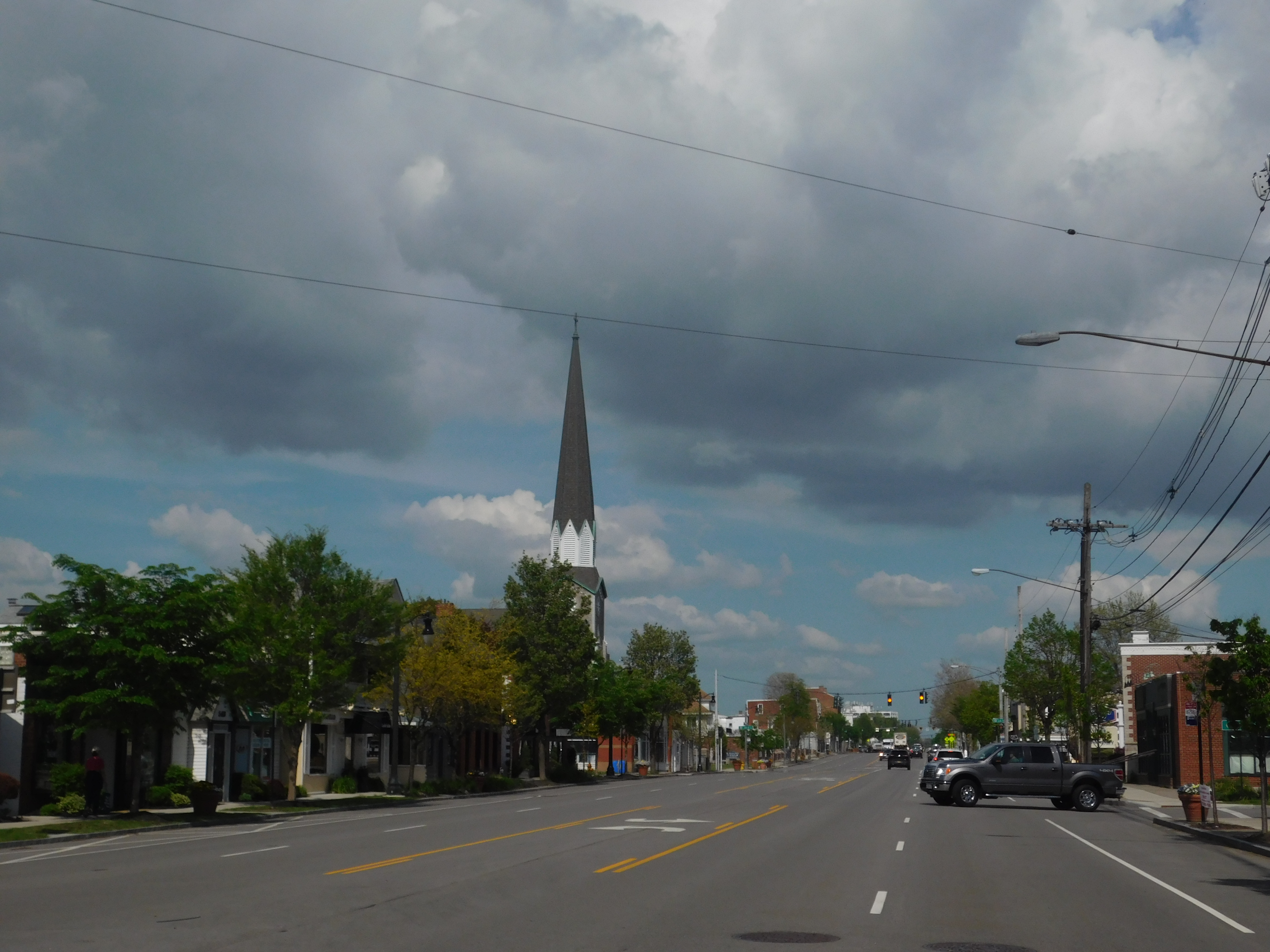 The village of Williamsville, New York along New York State Route 5.